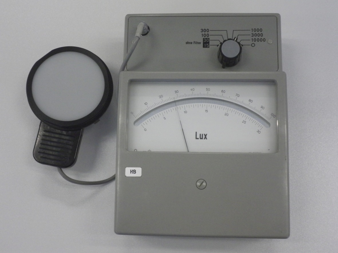 analog Luxmeter